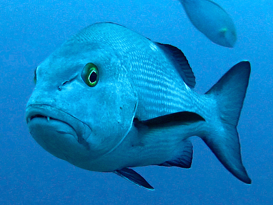 Lutjanus bohar from French Polynesia